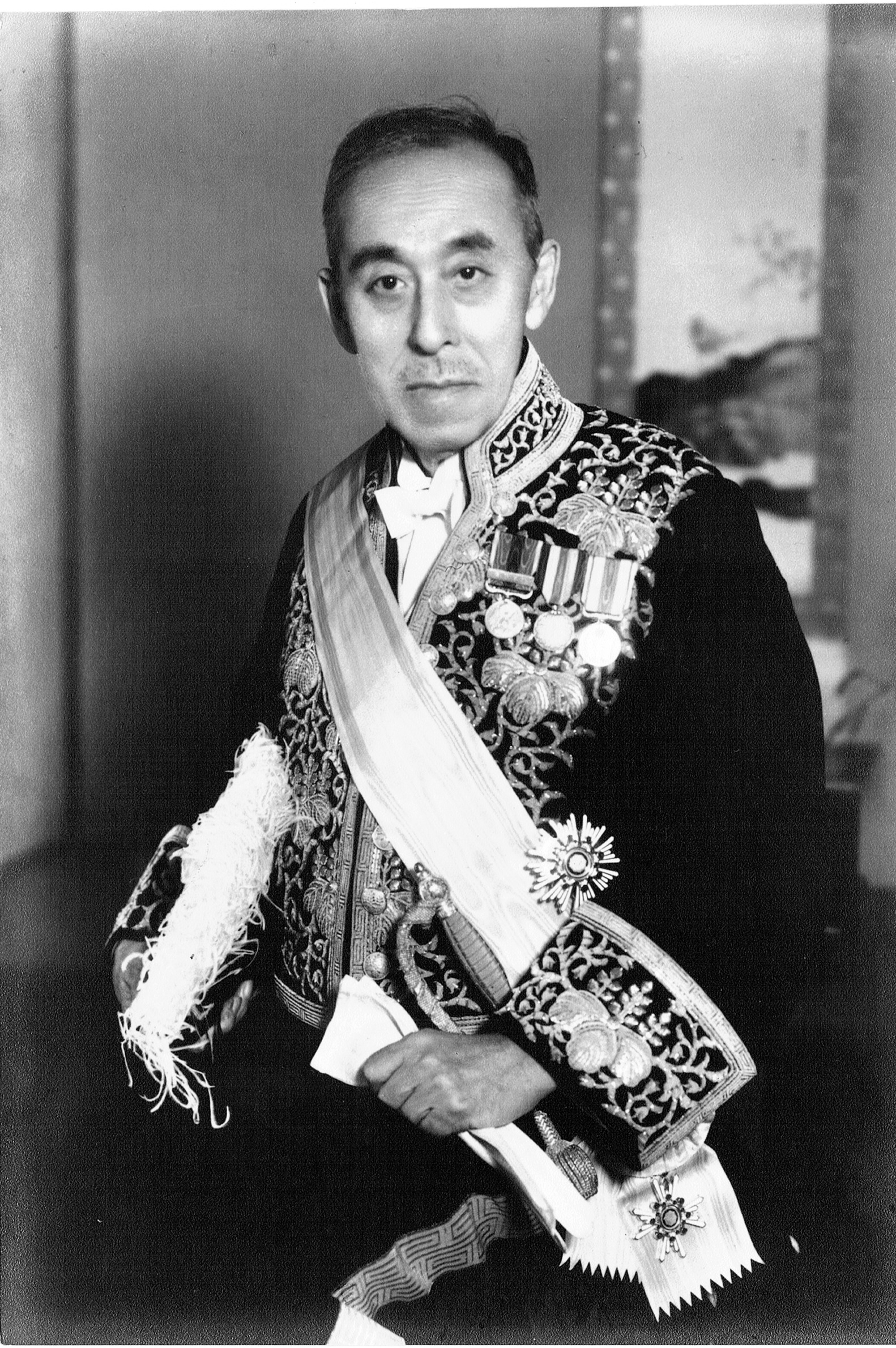 A picture of Chozaburou Kusumoto.